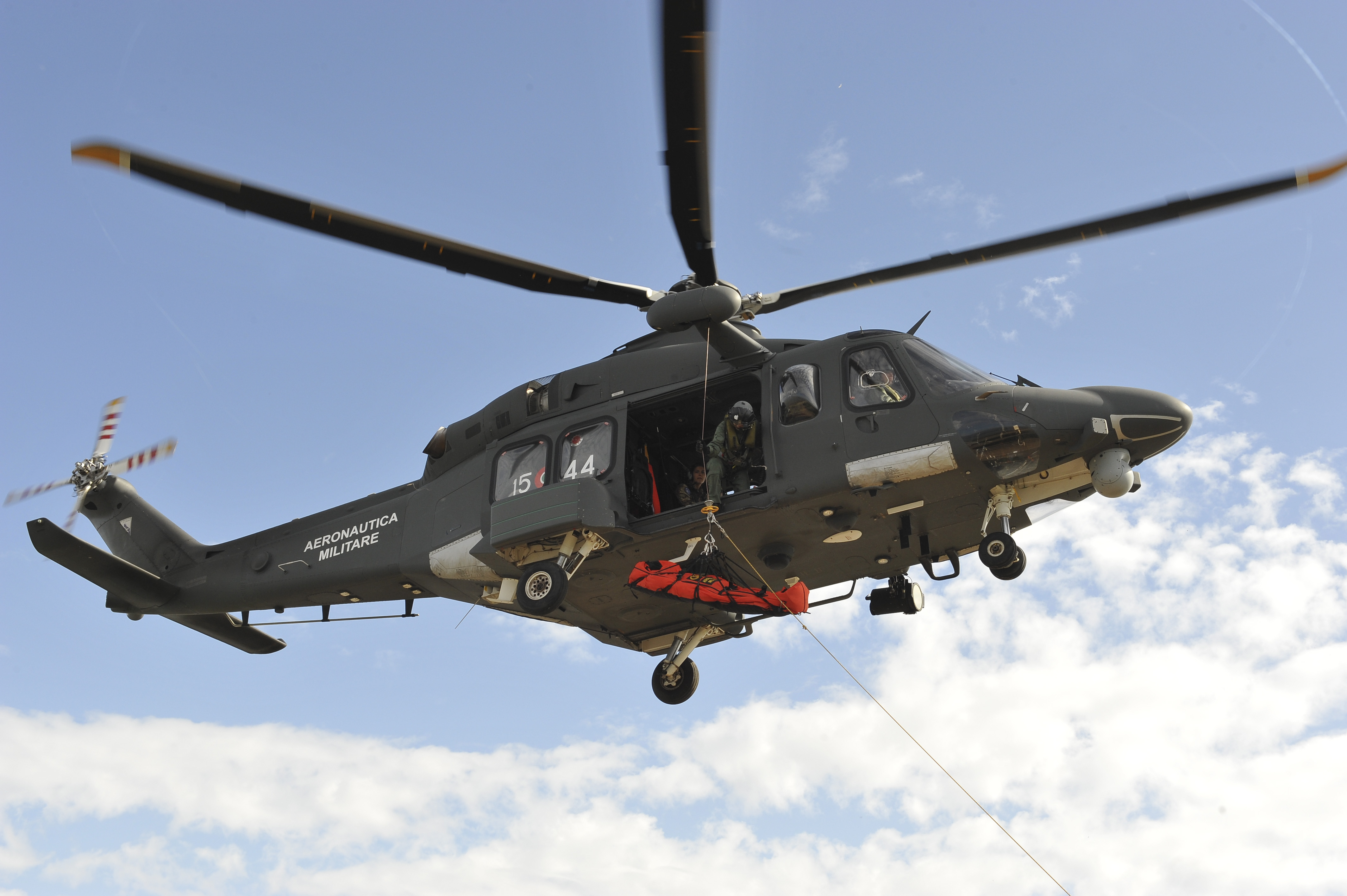 HH139 of It.A.F. 82nd CSAR during recovery operations within TJ exercise NATO photo by Antonio STELLATO